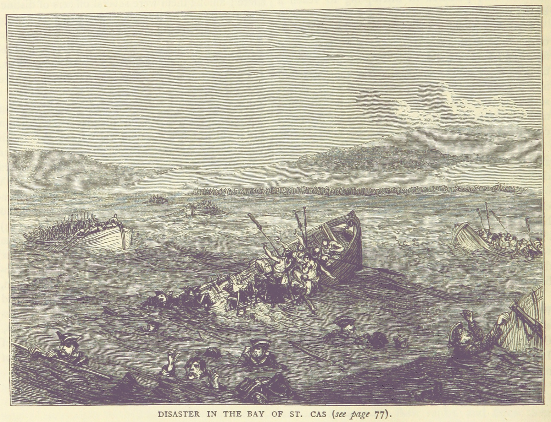 British boats sinking as they retreat at the Battle of Saint Cast.